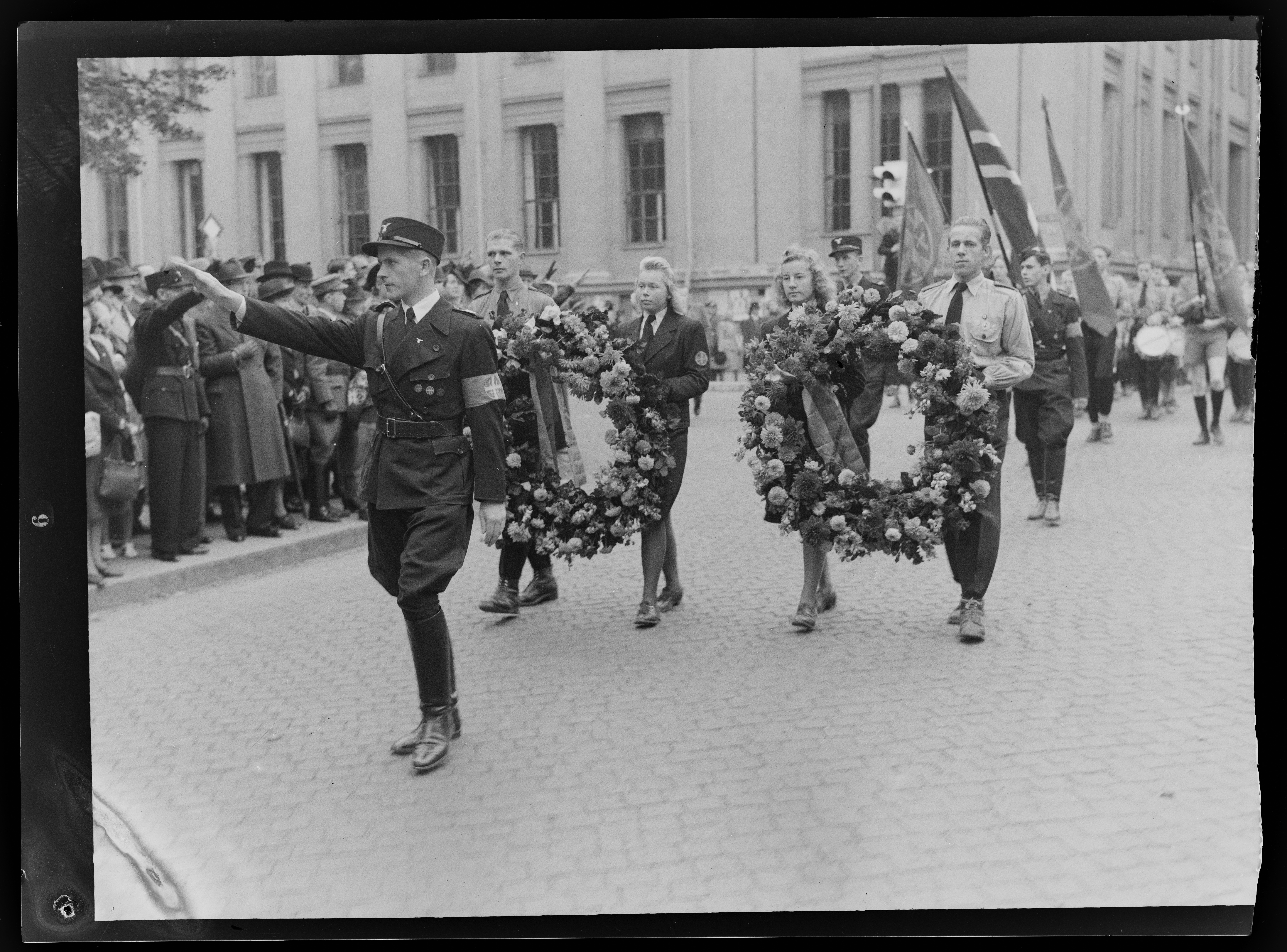 NSUFs kampdag. Bekransning av Bjørnson- og Ibsen-statuene.